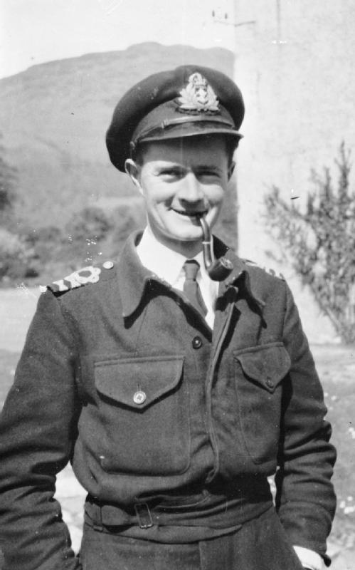 Photo of Donald Cameron VC, Royal Naval Reserve: Place and date of deed, HM Submarine X6, North Norway, 22 September 1943.